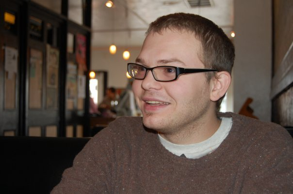 Animal rights activist Jordan Halliday at a local vegan cafe in Salt Lake City, Utah.